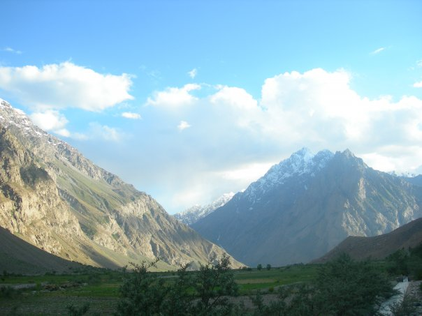 Rushon AirGate